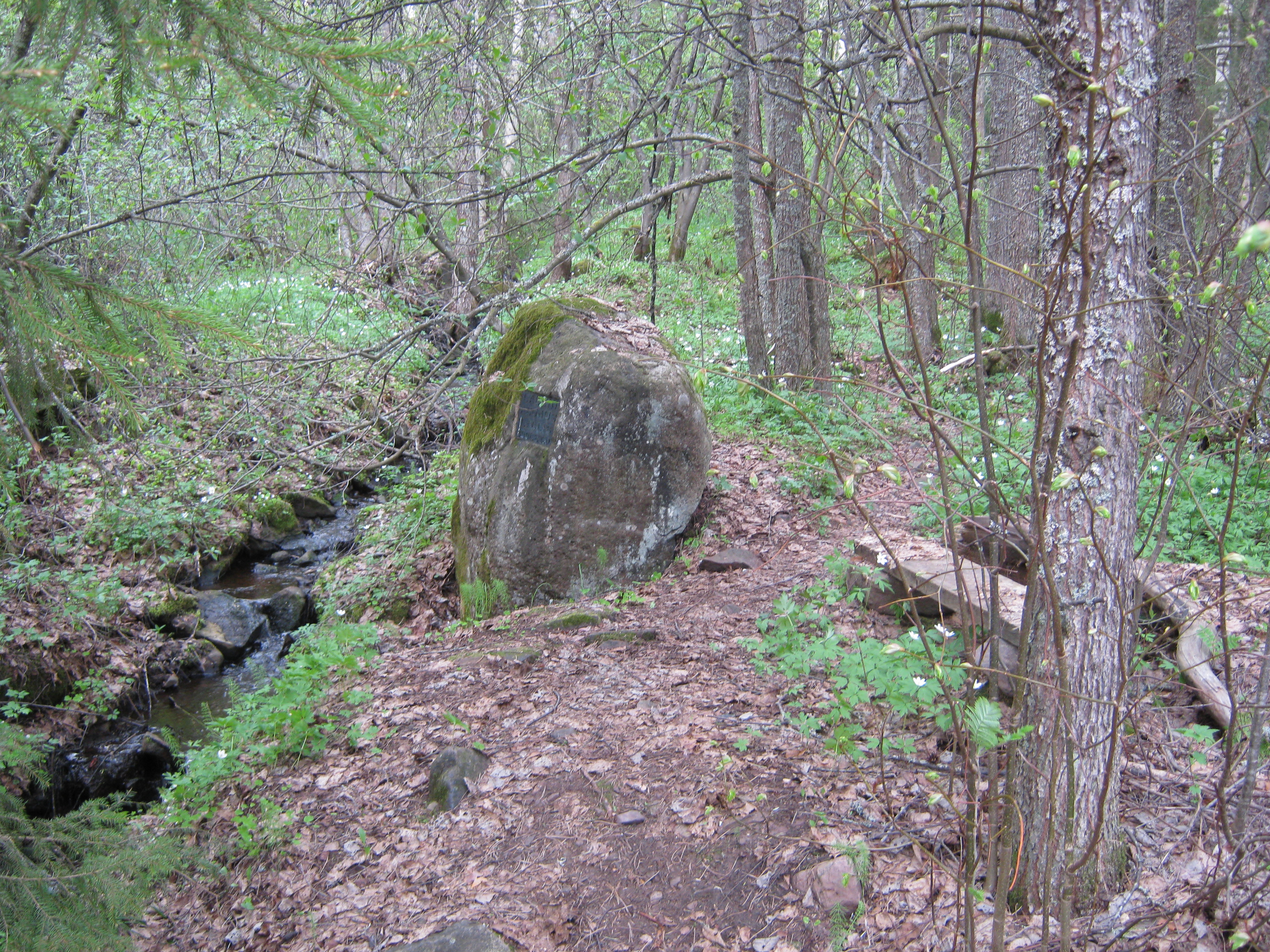 Traditional settlement of peasant Lalli, Köyliö, Finland.